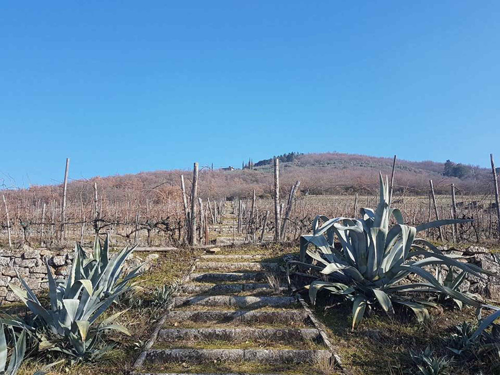 Historic Monumental Vineyard "Vigna delle Sanzioni", Loro Ciuffenna, Arezzo